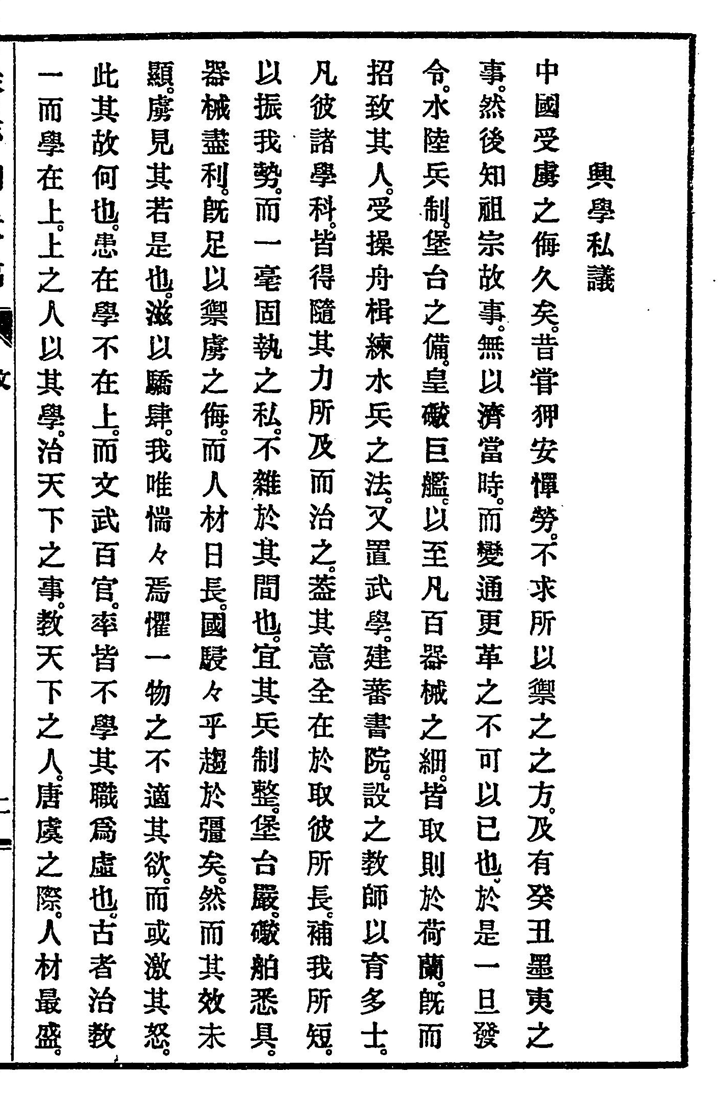 "Kōgaku Shigi", written by Kobayashi Torasaburō